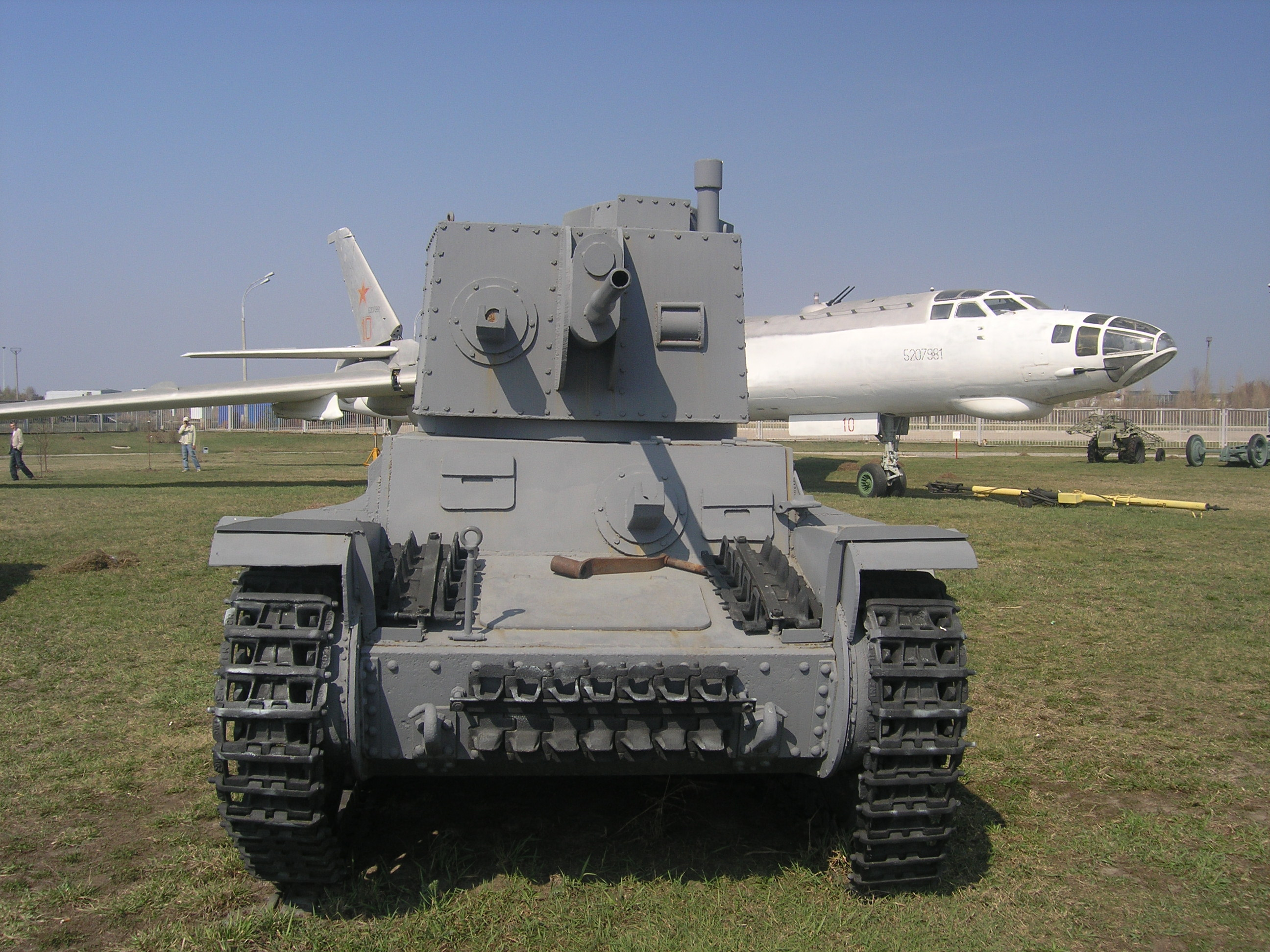 Panzer 38(t), Technical museum in Togliatti, Russia